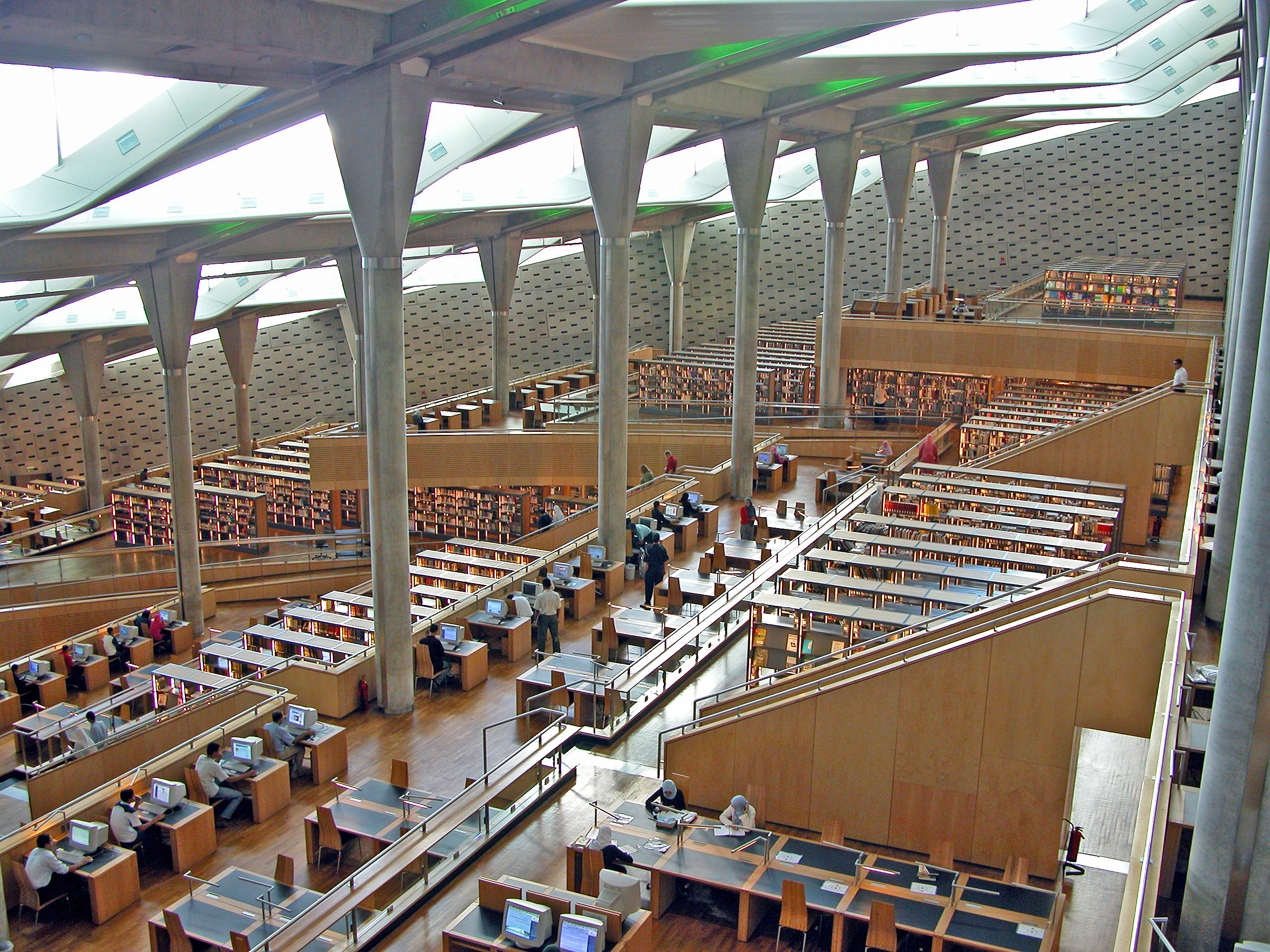 Library of Alexandria - Alexandria, Egypt In the days when 500,000 papyrus scrolls could store the entire sum of human knowledge, the Egyptian city of Alexandria was the site for the world’s greatest library. It was here, under Ptolemies, that man first calculated the circumference of the earth and discovered the power of steam, only to abandon it because energy from slaves was so much cheaper. But when the Great Library was destroyed, 1,400 or more years ago, many works of literature and philosophy were lost forever, along with scientific knowledge which took centuries to re-discover. The new 11-story building, located on the original site of the ancient Alexandria Library will contain around half a million volumes initially, with an eventual capacity of 8 million books. The $200 million project, sponsored by the U.N. cultural body UNESCO, benefited from donations from countries around the globe.